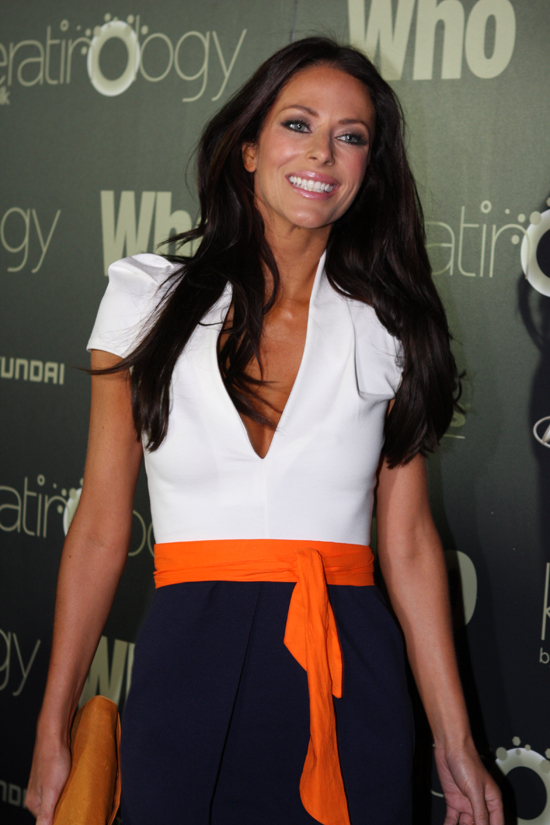 Actress Esther Anderson at "Who Magazine's" Sexiest People Party; Great Hall At University of Sydney, Australia